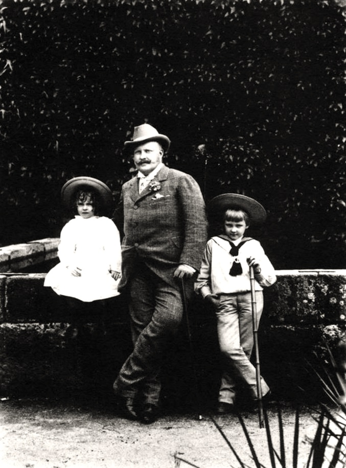 Rei D. Carlos I de Portugal com os seus filhos.